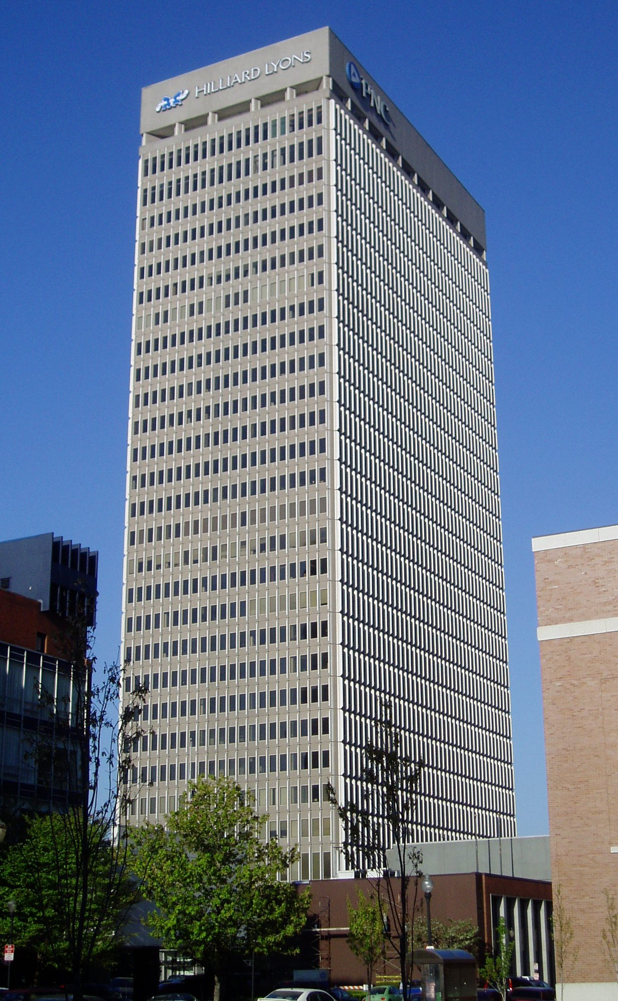 PNC Plaza, taken by SimonP